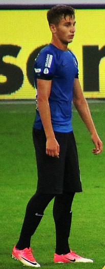 Denis Drăguș playing for Viitorul Constanța.